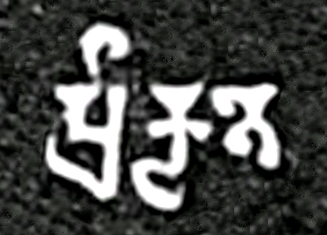 Word for Prakrit Praakritee in the Mandsaur stone inscription of Yashodharman-Vishnuvardhana 532 CE